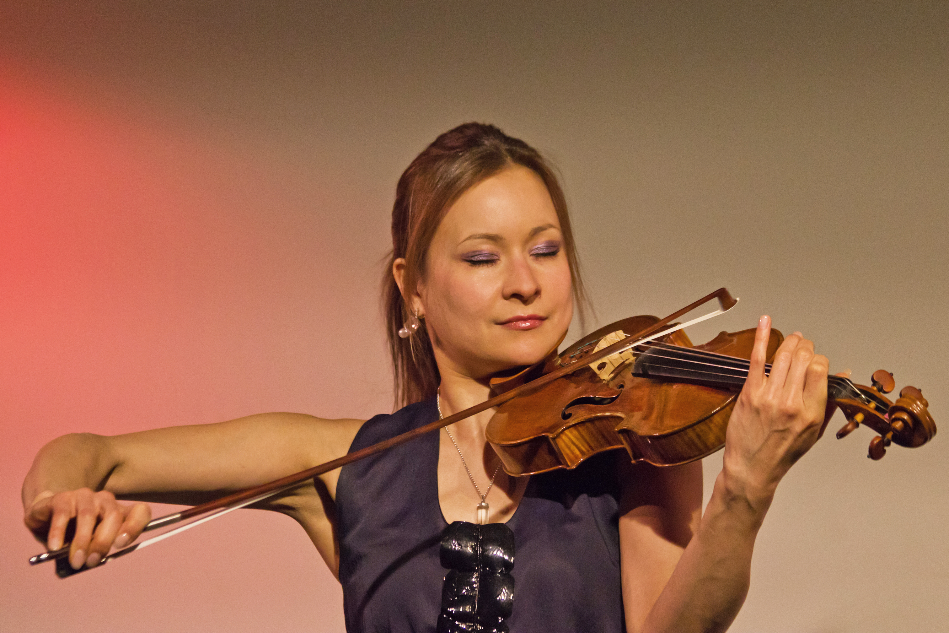 Arabella Steinbacher is a violinist from Munich, Germany.